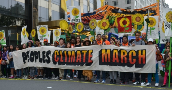 Demonstrators participating in the People's Climate March